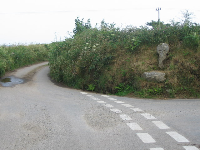 Isolated Cross. A view looking south along the lane from Lanlivery, towards the cross at an isolated road junction.